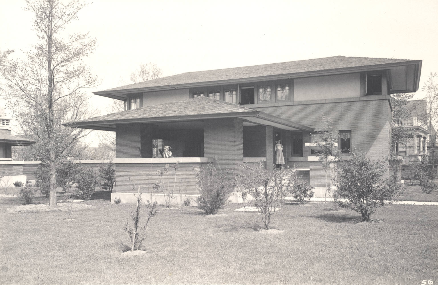 Collection: A. D. White Architectural Photographs, Cornell University Library Accession Number: None Title: George Barton House, Darwin Martin House Complex, Buffalo, NY Henry Fuermann (American, active 1900-1929) Frank Lloyd Wright (American, 1869-1959) Photograph date: ca. 1905 Building Date: 1902-1904 Image: 6 x 9 1/8 in.; 15.24 x 23.1775 cm Style: Prairie Style Persistent URI: There are no known U.S. copyright restrictions on this image. The digital file is owned by the Cornell University Library which is making it freely available with the request that, when possible, the Library be credited as its source. We had some help with the geocoding from